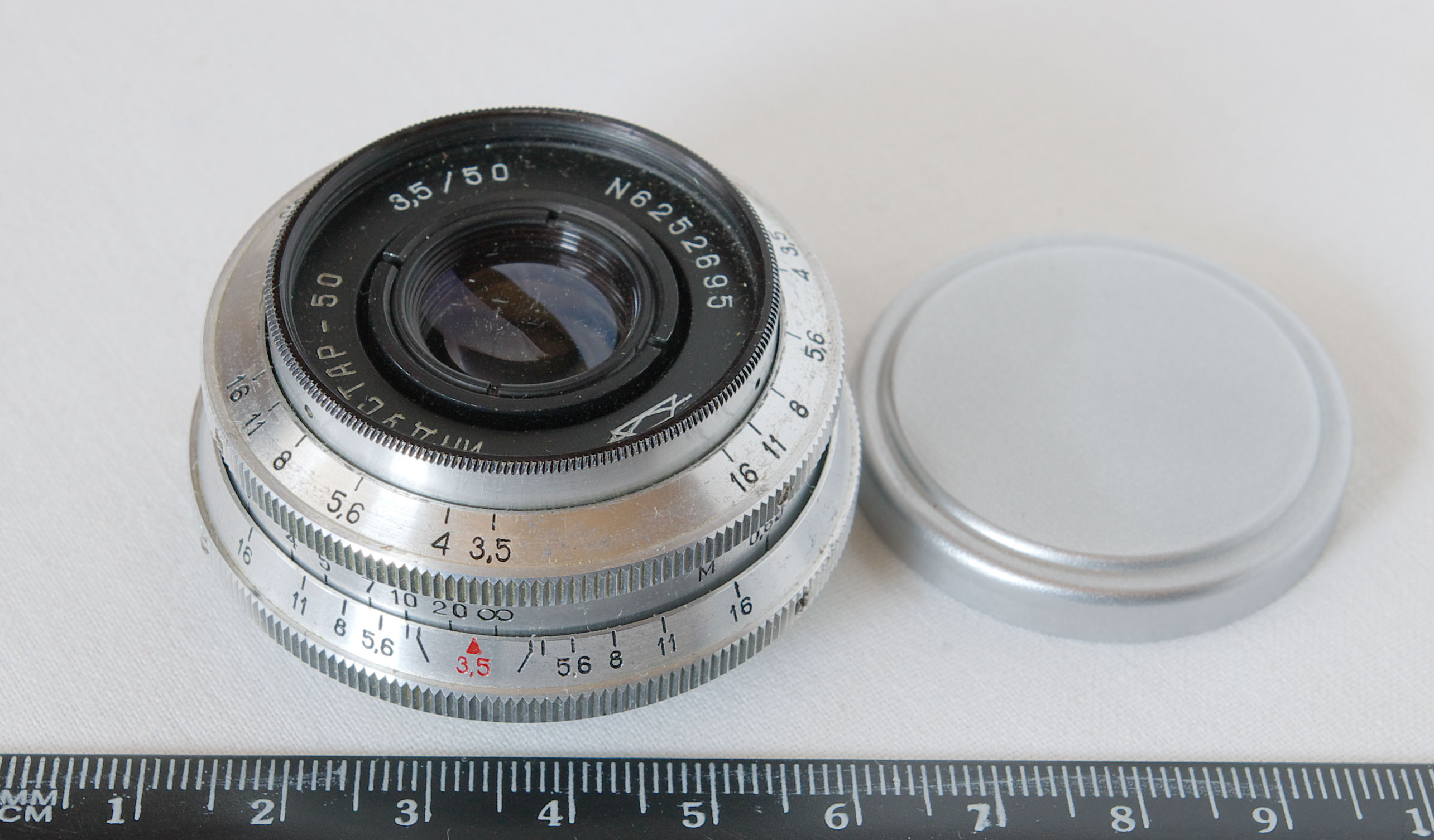 Industar-50 3.5/50 mm lens, M39 SLR version. Made by KMZ, USSR